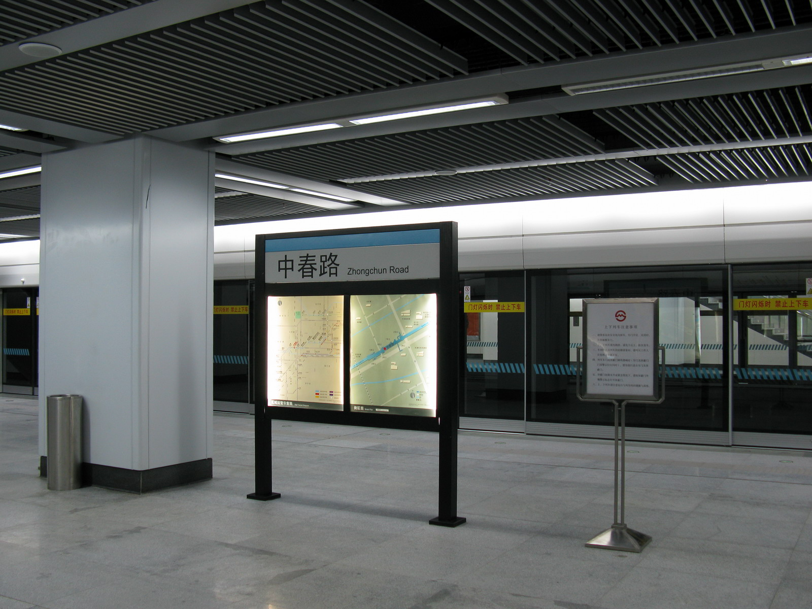 中春路站 9号线月台 Line 9 Platform of Zhongchun Road Station